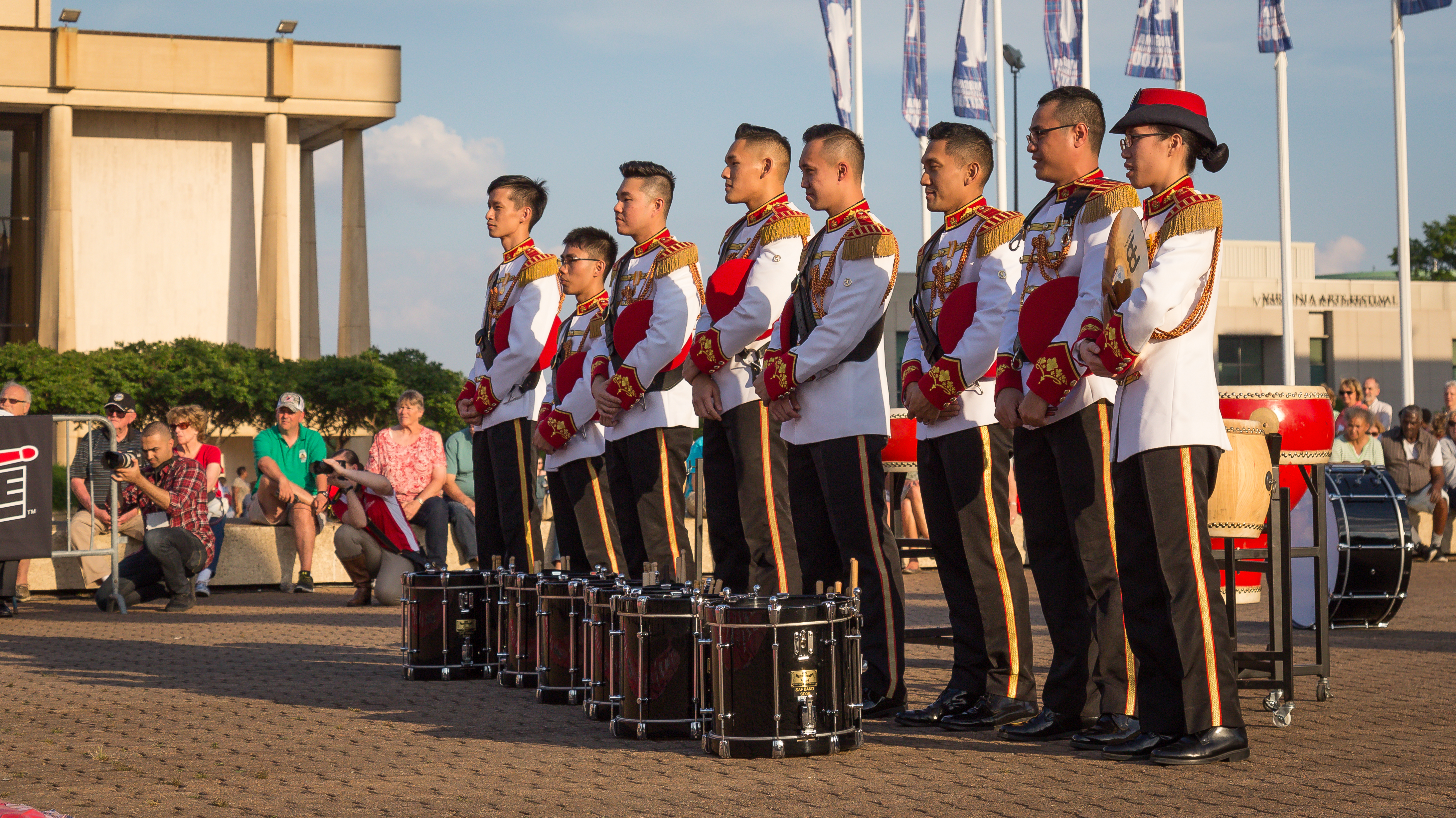 The Singapore Armed Forces Band's Drumline looks on as its competition, U.S. Marines from Quantico, take their turn. A Drumline battle takes place before each Virginia International Tattoo show.